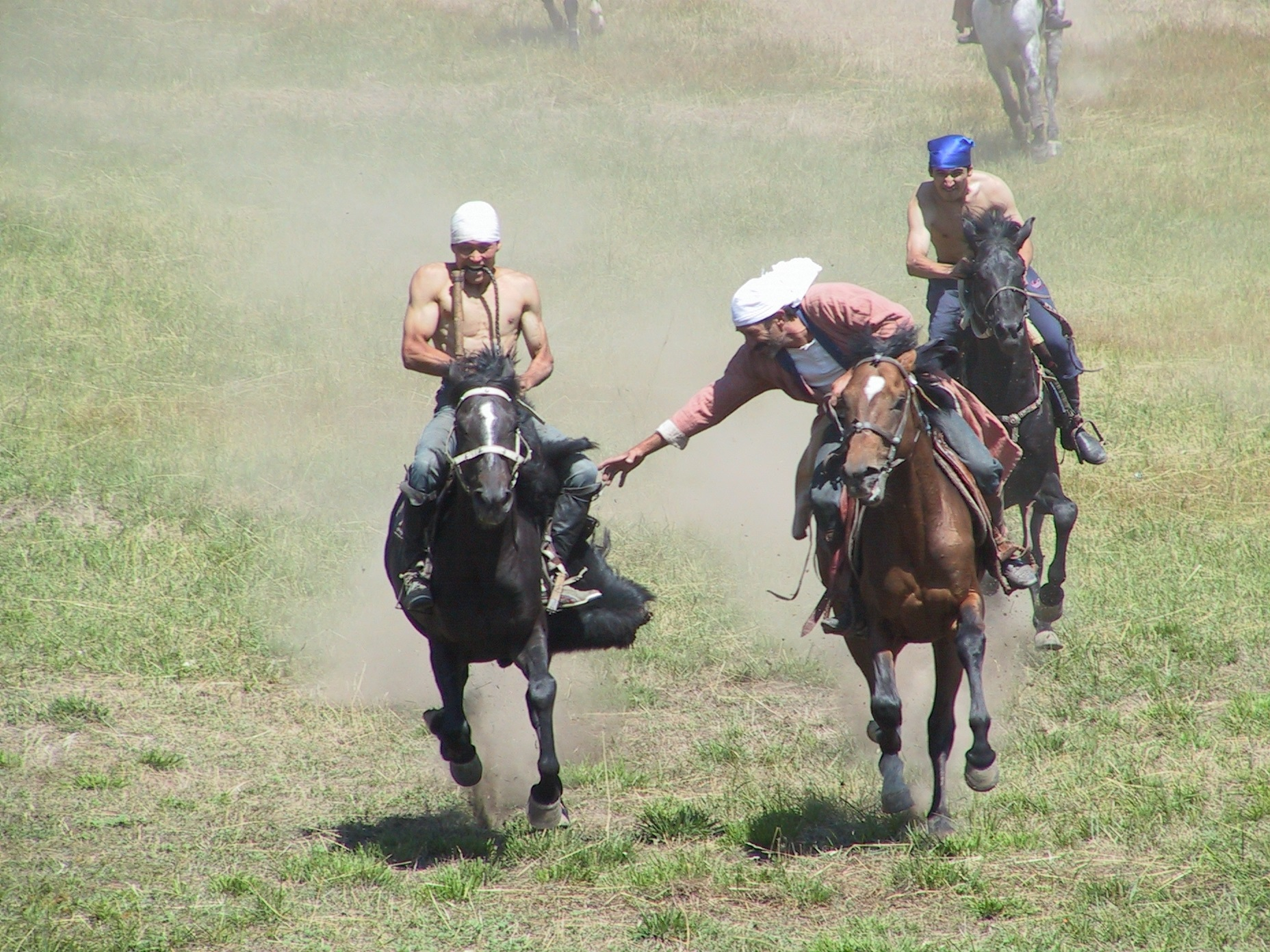 His team playing Buz Kashi